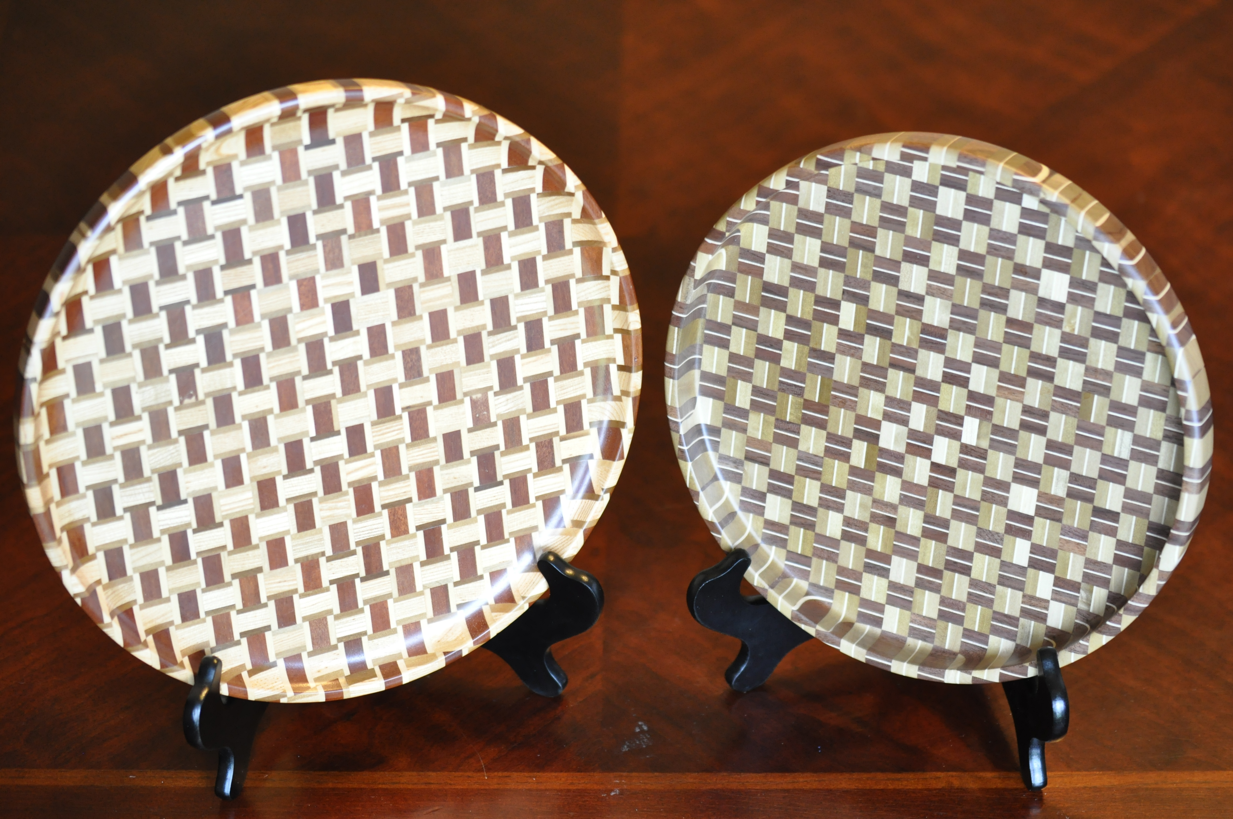 Obon was made from solid wood material (Yosegi Zaiku at Hakone)